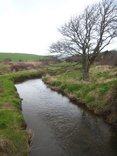 The River Gannel below Trevemper Bridge. Although the river doesn't appear to be very substantial, Trevemper Bridge is the lowest road crossing point.